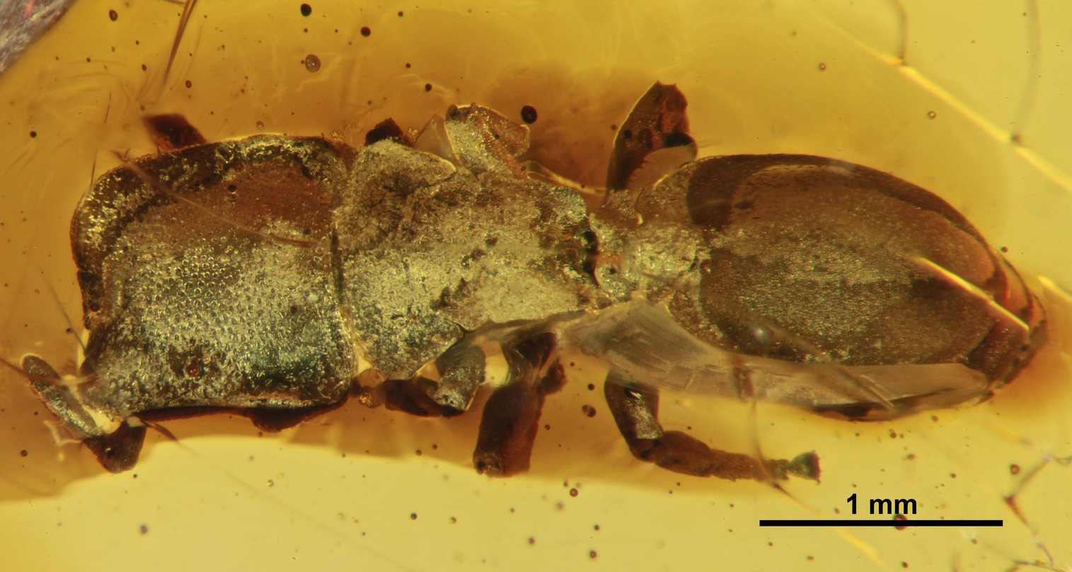 Dorsal view of the Cephalotes caribicus holotype worker in amber. Dominican amber, Burdigalian; Dominican Republic, Hispaniola Staatliches Museum fur Naturkunde, specimen SMNSDO5383